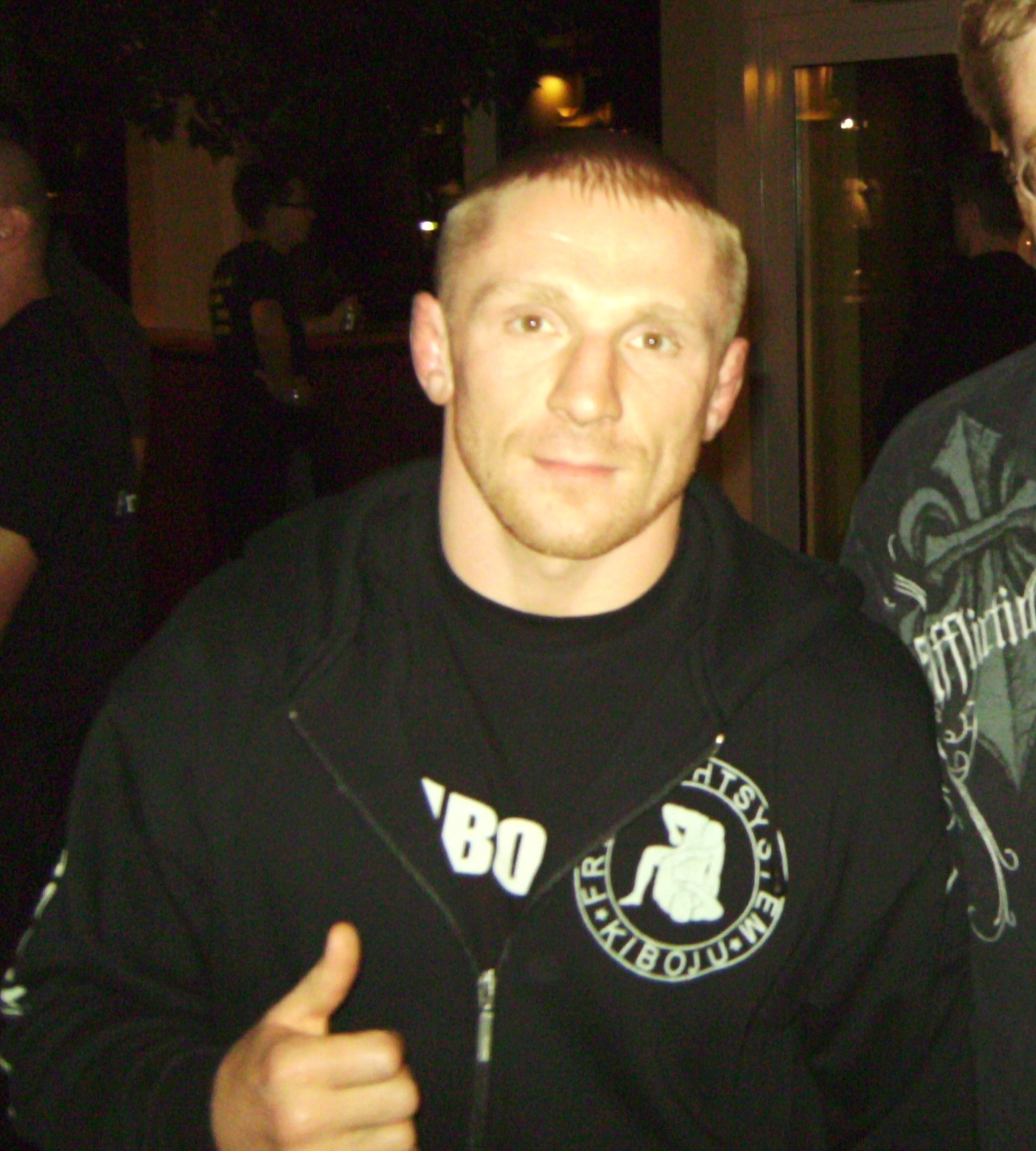 Dennis Siver after UFC 99 at Cologne, Germany.